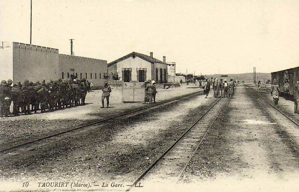 Taourirt Railway Station (1920)